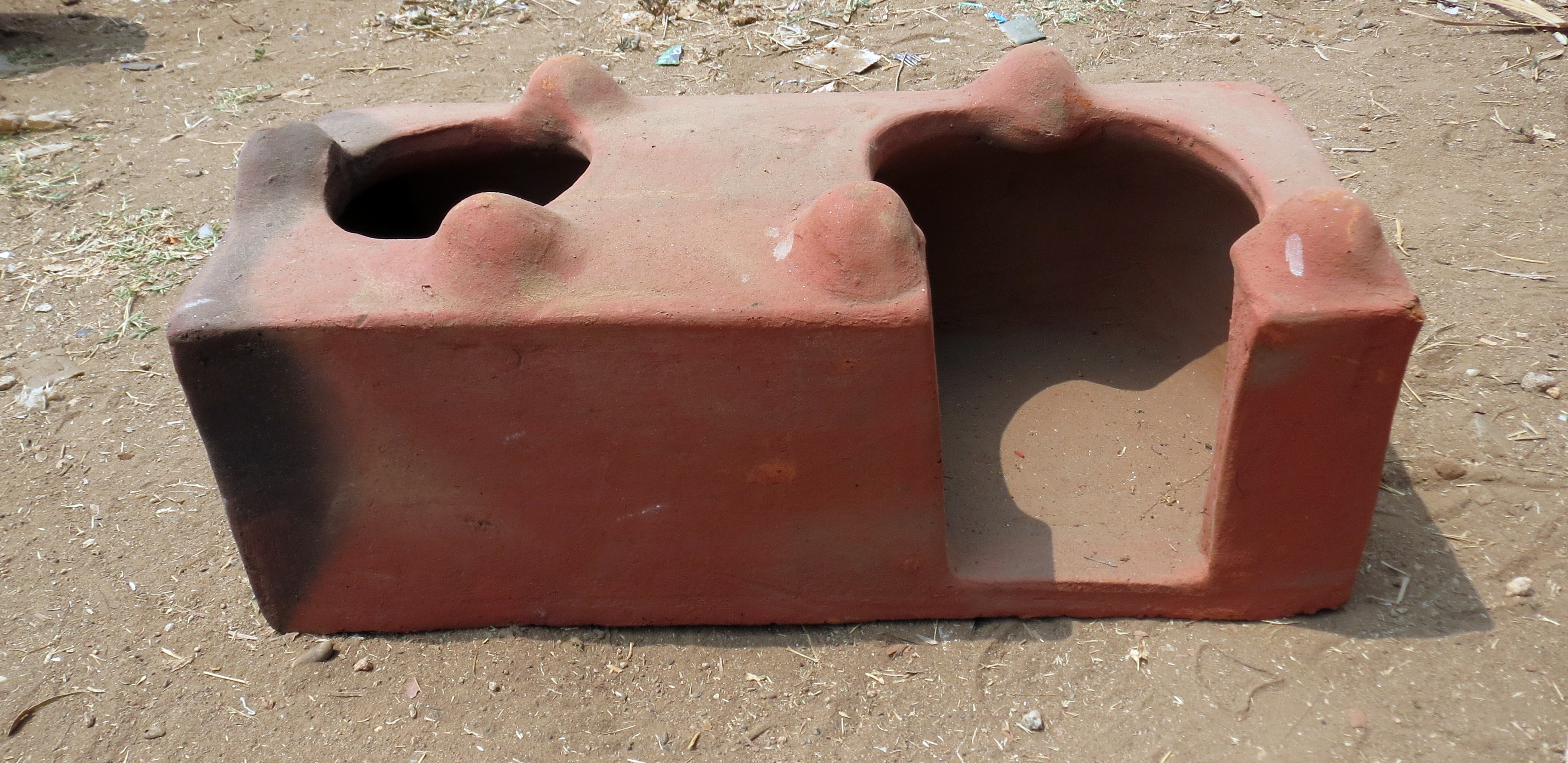 This clay stove is used in tamil nadu, India for cooking using firewood as fuel. Tamil:இரட்டை அடுப்பு. இது களிமண்ணால் ஆனது. தமிழ்நாட்டில் உணவு சமைக்கப் பயன்படுத்தப்படுகிறது. இதில் எரிபொருளாக விறகு பயன்படுத்தப்படுகிறது.